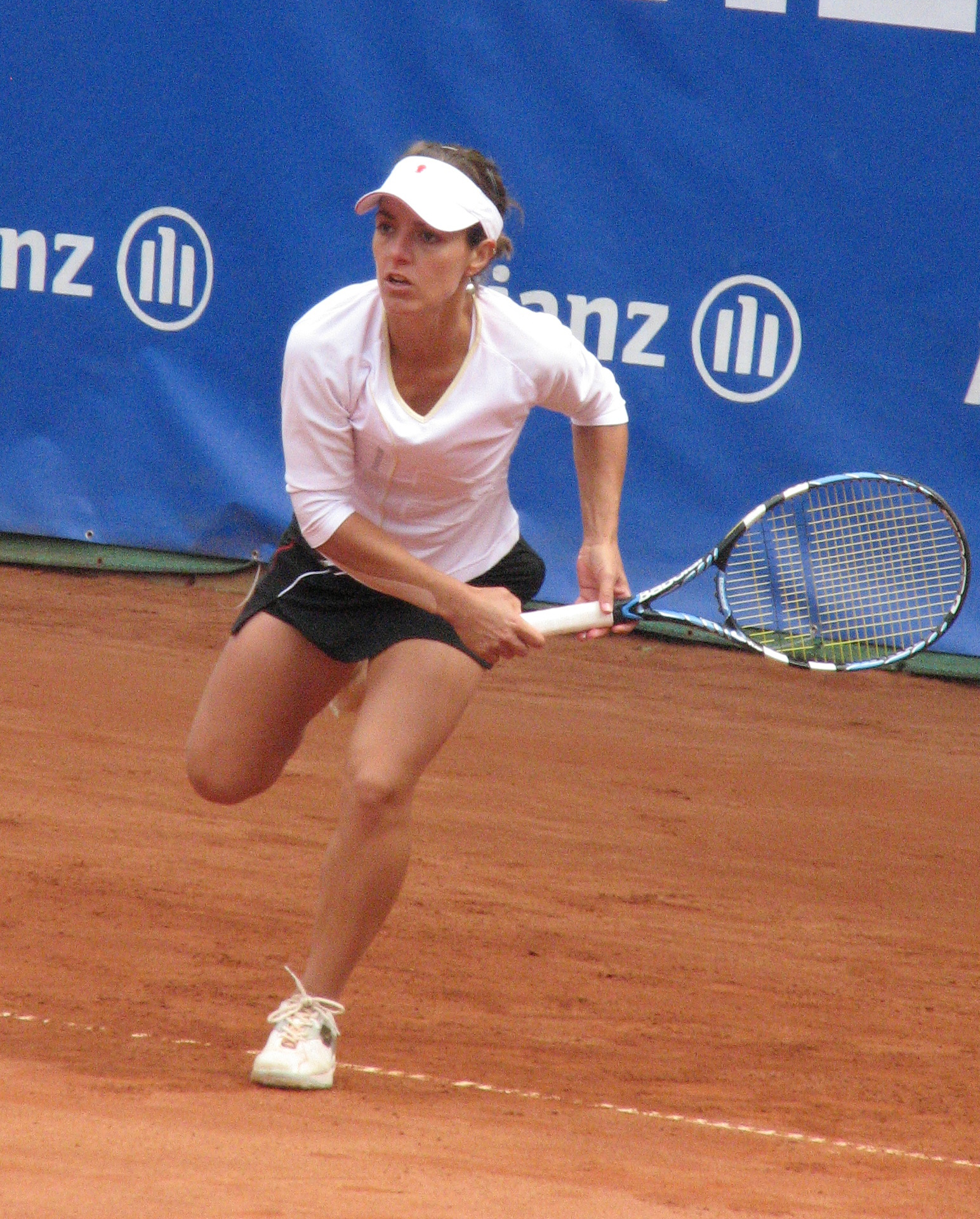 Nuria Llagostera Vives (Allianz Cup Sofia 2008). She won the singles title by beating Tsvetana Pironkova in the final.